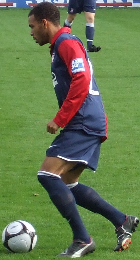 Peter Bore.